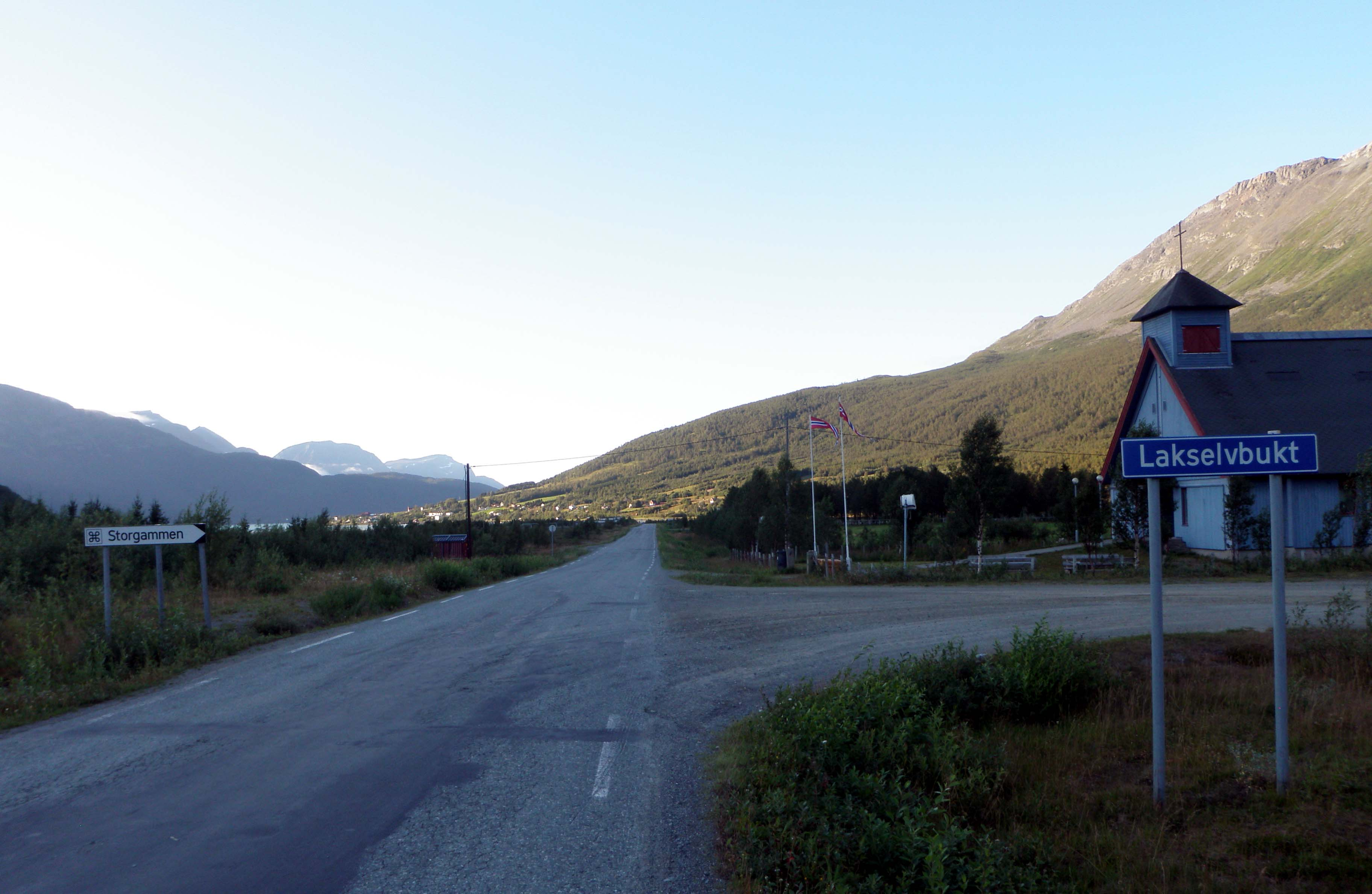 The outskirts of Lakselvbukt in Tromsø, Troms, Norway. Lakselvbukt Church can be seen on the right.